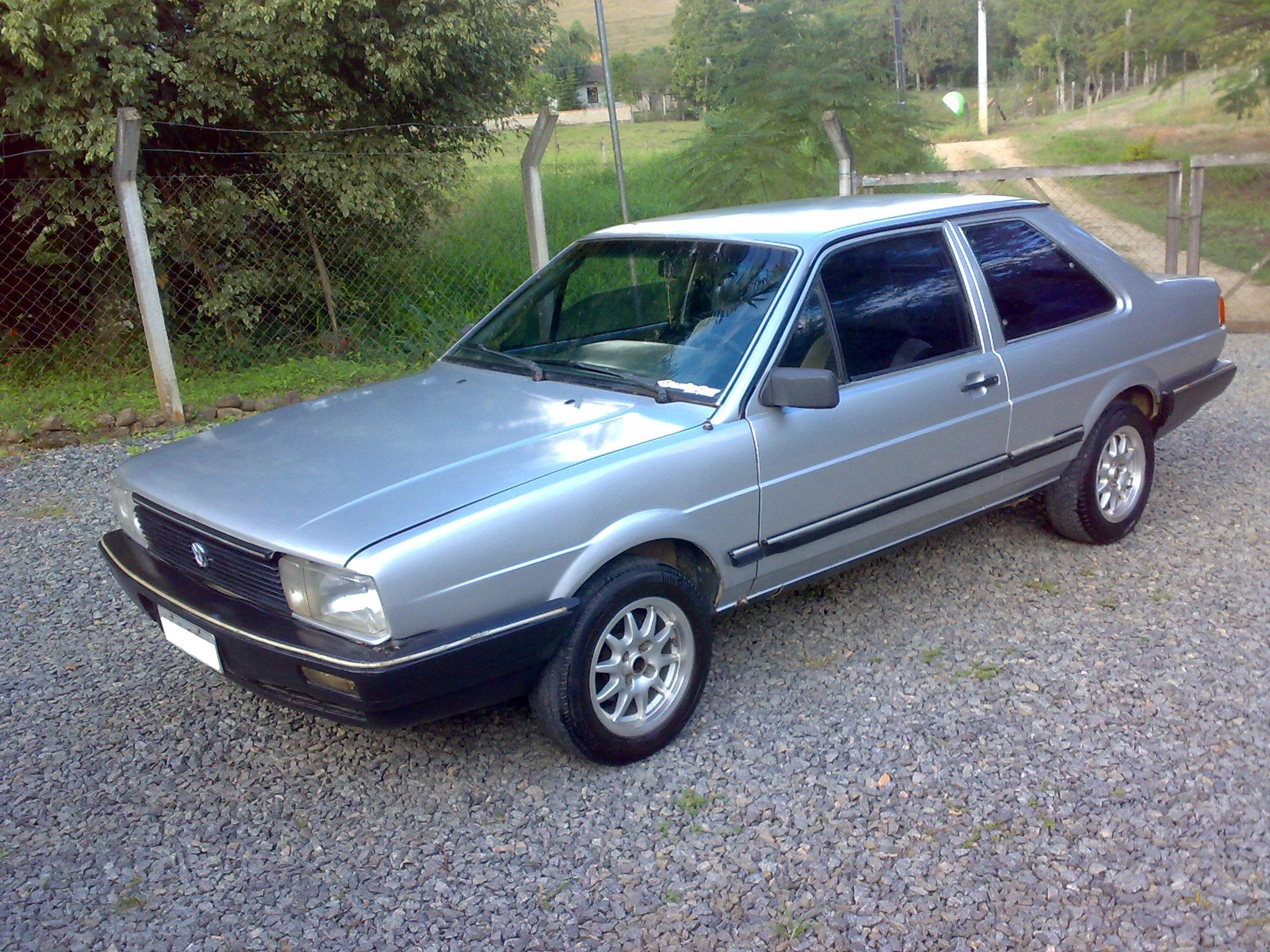 VW Santana AP 1.8 1986 slightly modified in Brazil.